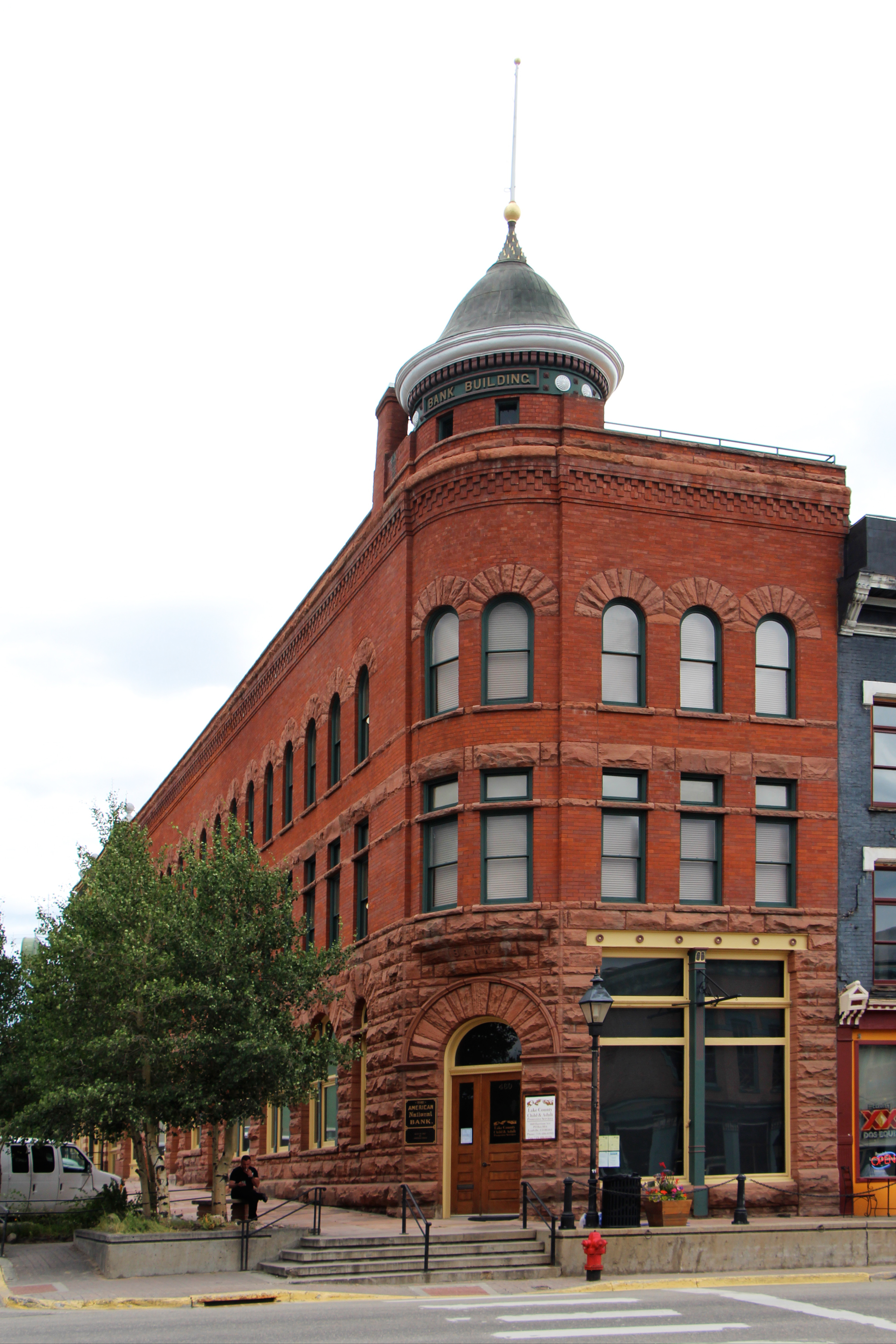 American National Bank, 460 Harrison Ave., Leadville, CO